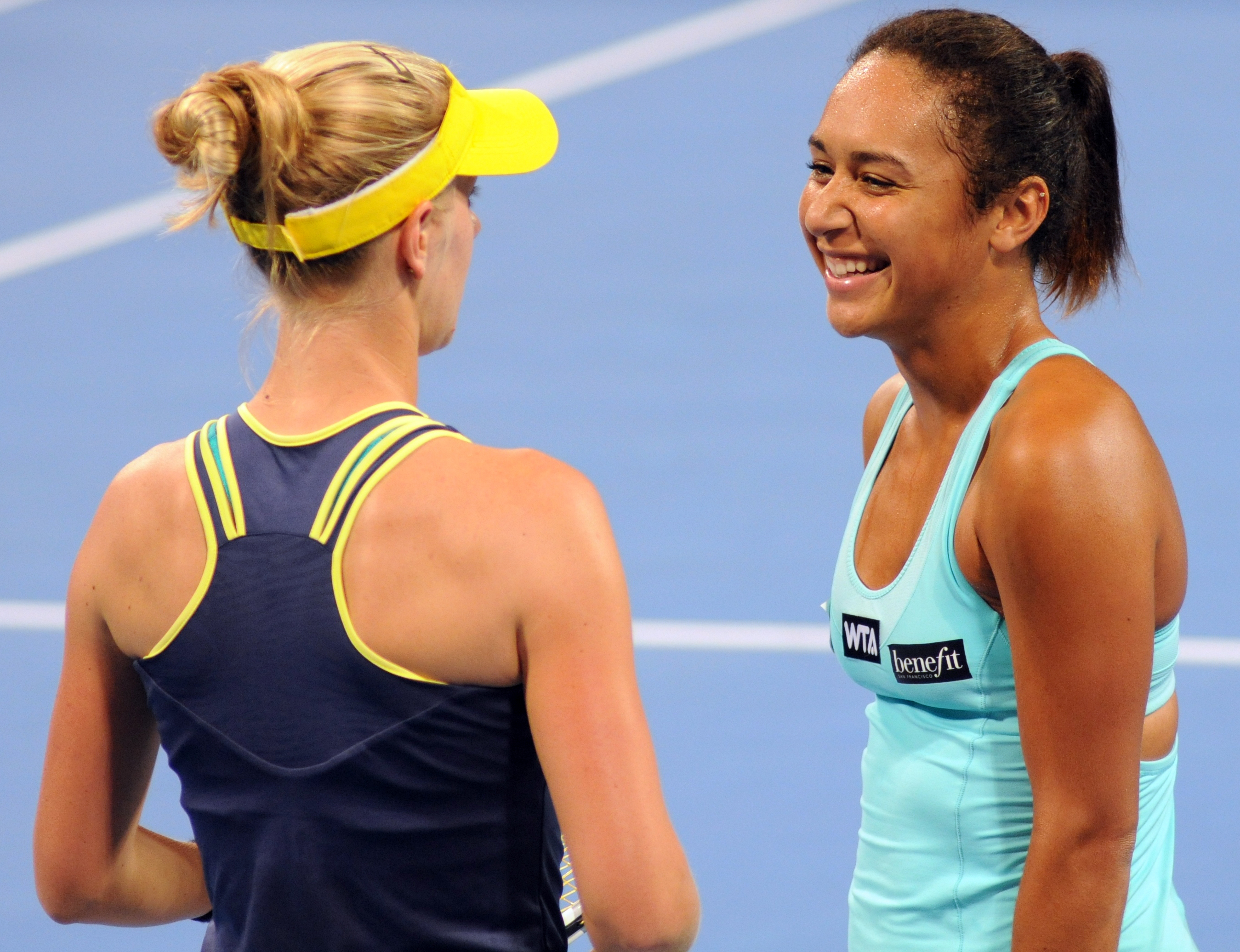 Alison Riske and Heather Watson at the 2014 China Open